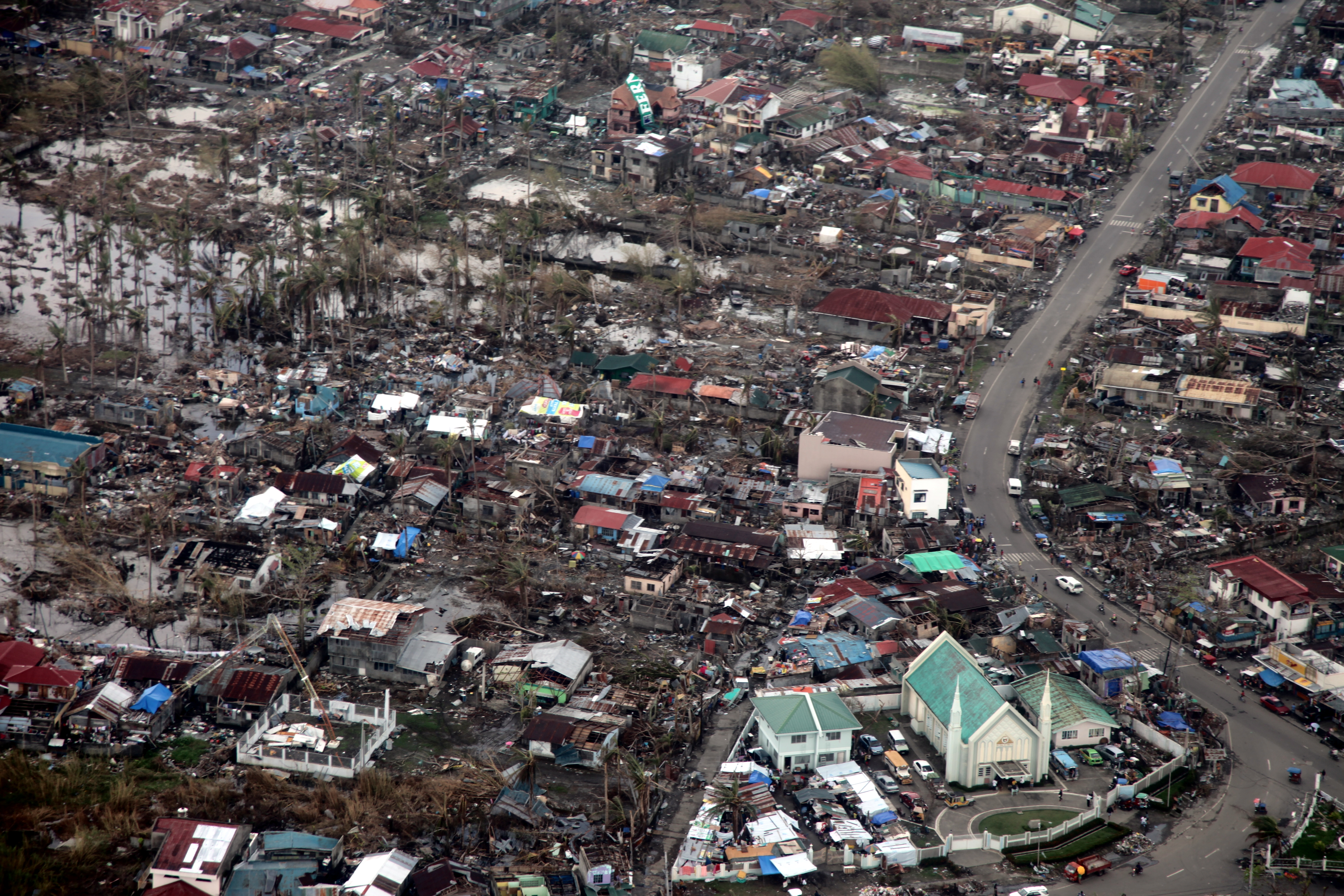 A church on the outskirts of Tacloban is one of the few buildings to remain unscathed after Typhoon Haiyan devastated the city on 8 November 2013. Two and a half weeks on from the disaster the main roads have been cleared and aid is getting through but, many people remain in need of assistance. The UK is providing £55m in humanitarian aid, in the form of shelter kits, food, medicine and water purification tablets, as well as Royal Navy ships and Royal Air Force planes to help distribute the aid to remote areas.